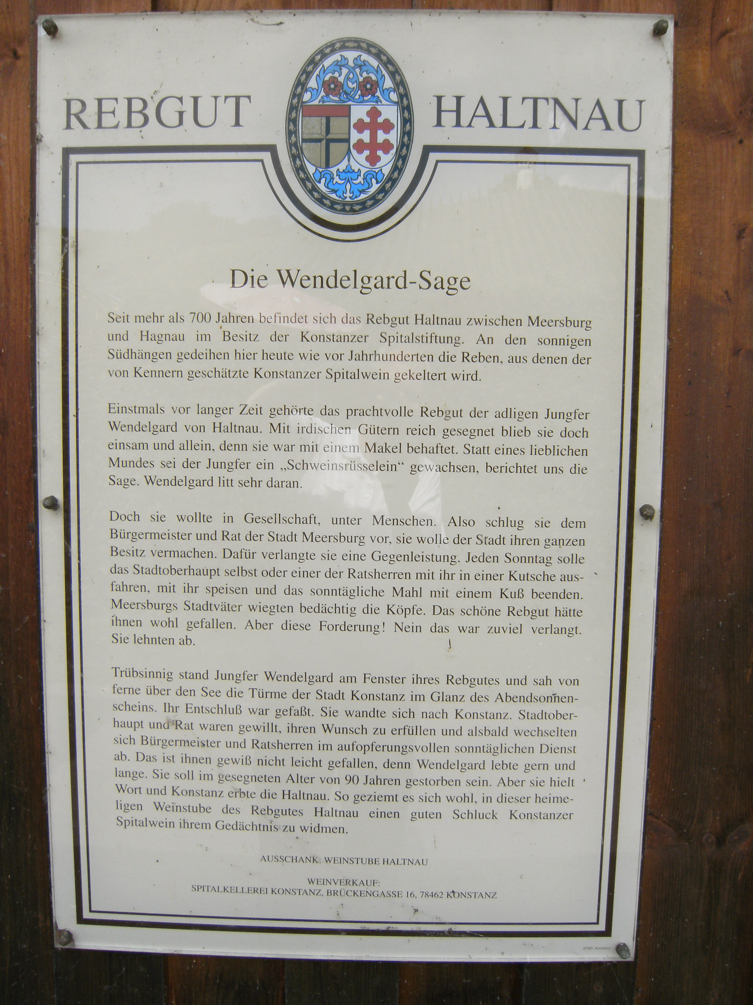 Story of Wendelgard on a information board at Haltnau between Meersburg and Hagnau, Germany.